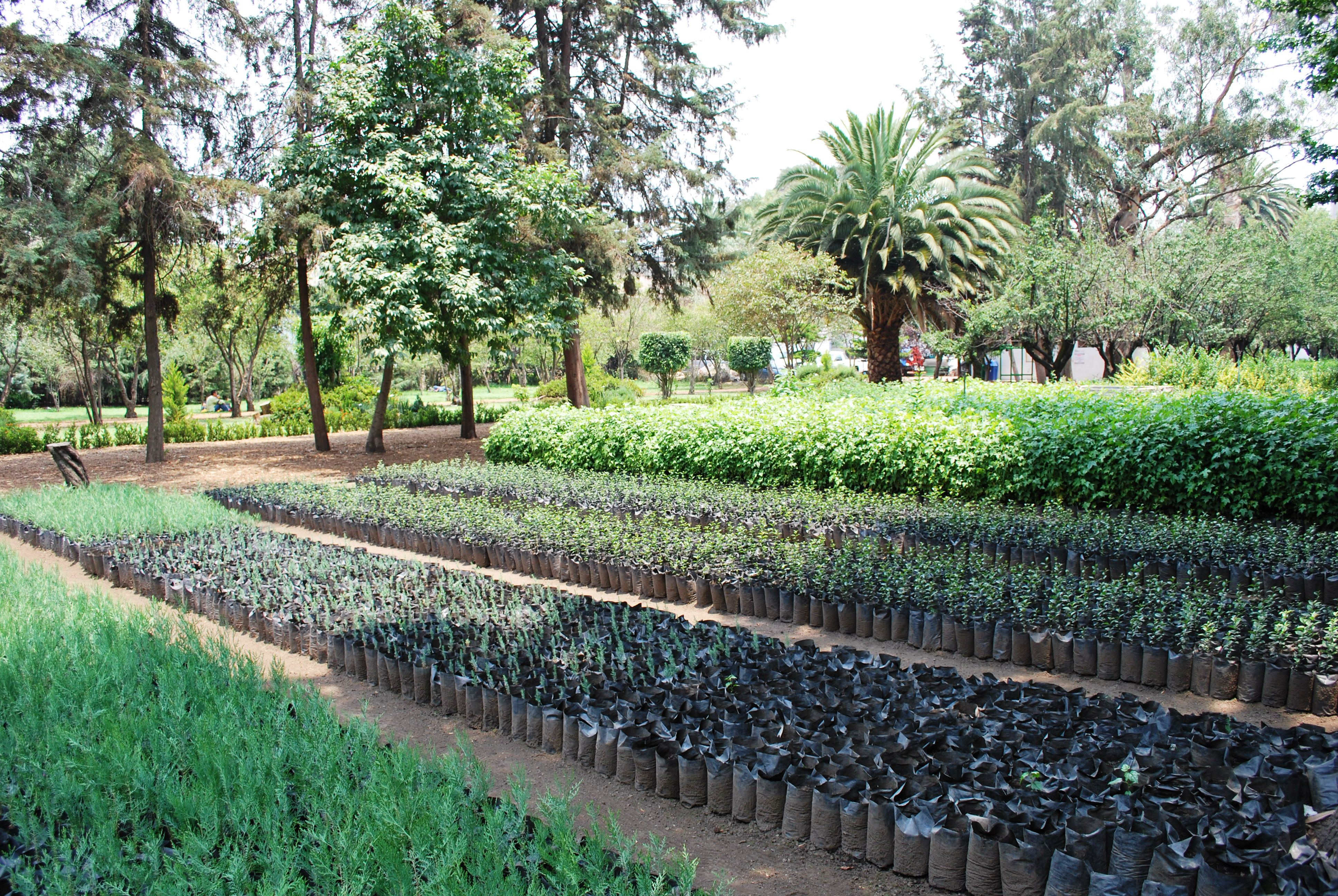 Plant beds in the Viveros de Coyoacan park and plant nursery in Coyoacan borough, Mexico City